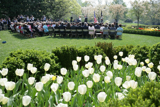 The tulips are in full bloom in the Rose Garden at the White House Wednesday, April 20, 2005, as the President and First Lady welcome the 2005 National and State Teachers of the Year [1].